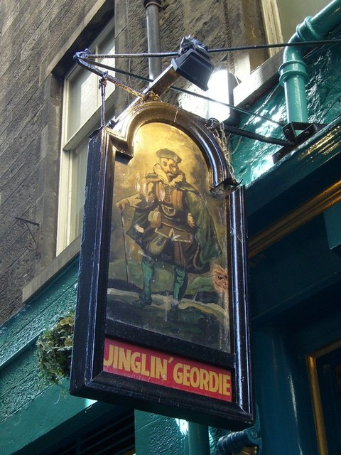 Pub sign depicting George Heriot, goldsmith to James VI and one of the first "Hungry Scots" to follow James to the English Court. Heriot had made the wedding jewellery for James's queen, Anne of Denmark, and his work was soon in demand amongst the Ladies of the Court. He returned to Edinburgh, having amassed a fortune, hence the nickname 'Jinglin' Geordie' (from the sound of coins clinking in his purse). Before his death in 1624 he bequeathed a school for the orphans of Edinburgh burgesses (the money to be collected from his debtors by the Town Council). By the end of the 18th century the Governors of the George Heriot's Trust had purchased the Barony of Broughton, thus acquiring extensive land for feuing on the northern slope below James Craig's Georgian New Town. This and other land purchases beyond the original city boundary generated considerable revenue for the Trust long after his death. 1412990